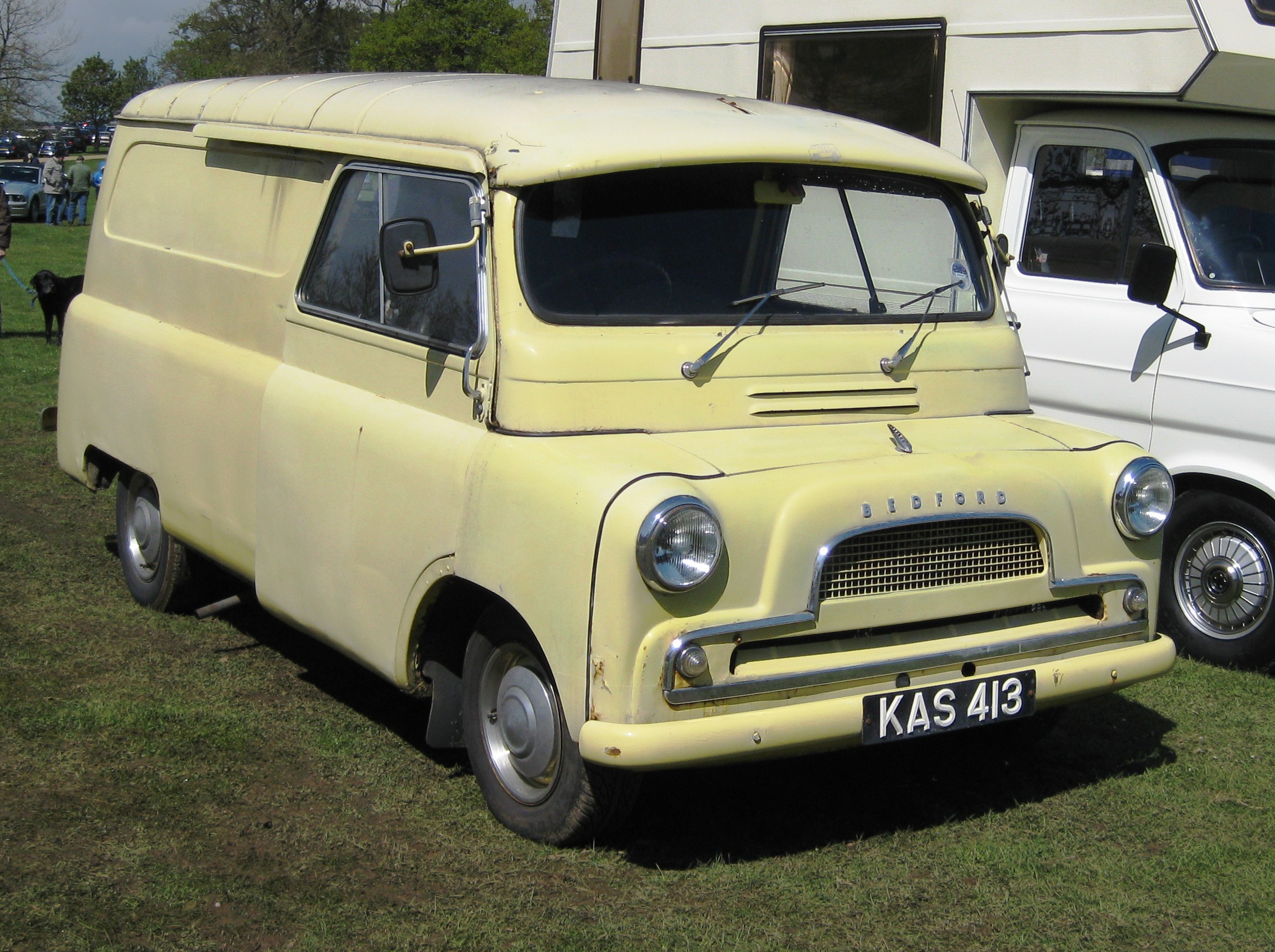 Bedford CA 1959. Before the appearance, in the mid 1960s, of the Ford Transit, this was the "one to beat" in the UK light van market.